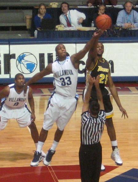 Dante Cunningham while playing for Villanoav at the Palestra in Philadelphia in 2008